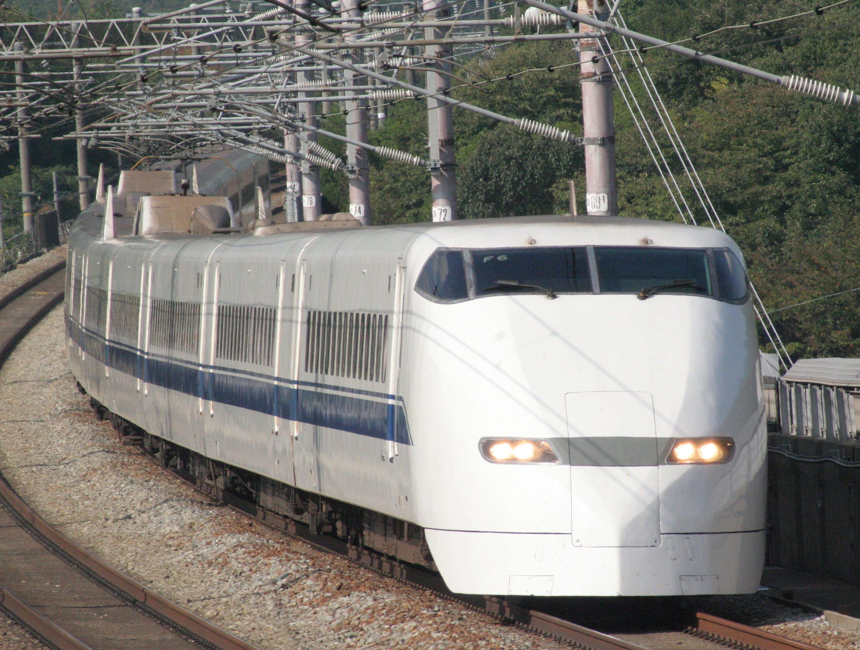 JR West 300 series set F6 on Hikari 368 service between Okayama and Aioi, 8 October 2008